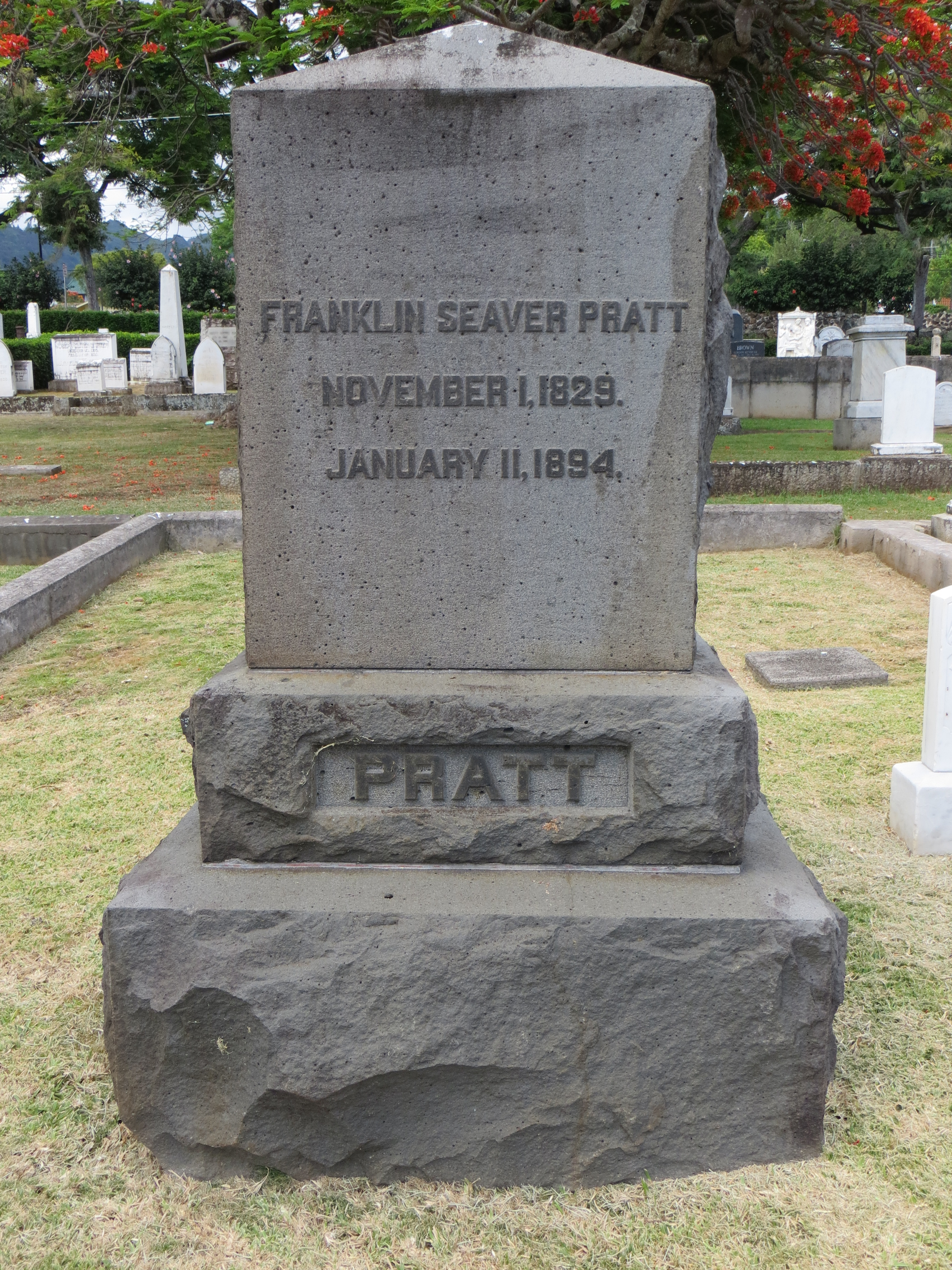 Tombstone of Franklin Seaver Pratt (1829-1894) in Oahu Cemetery, Honolulu